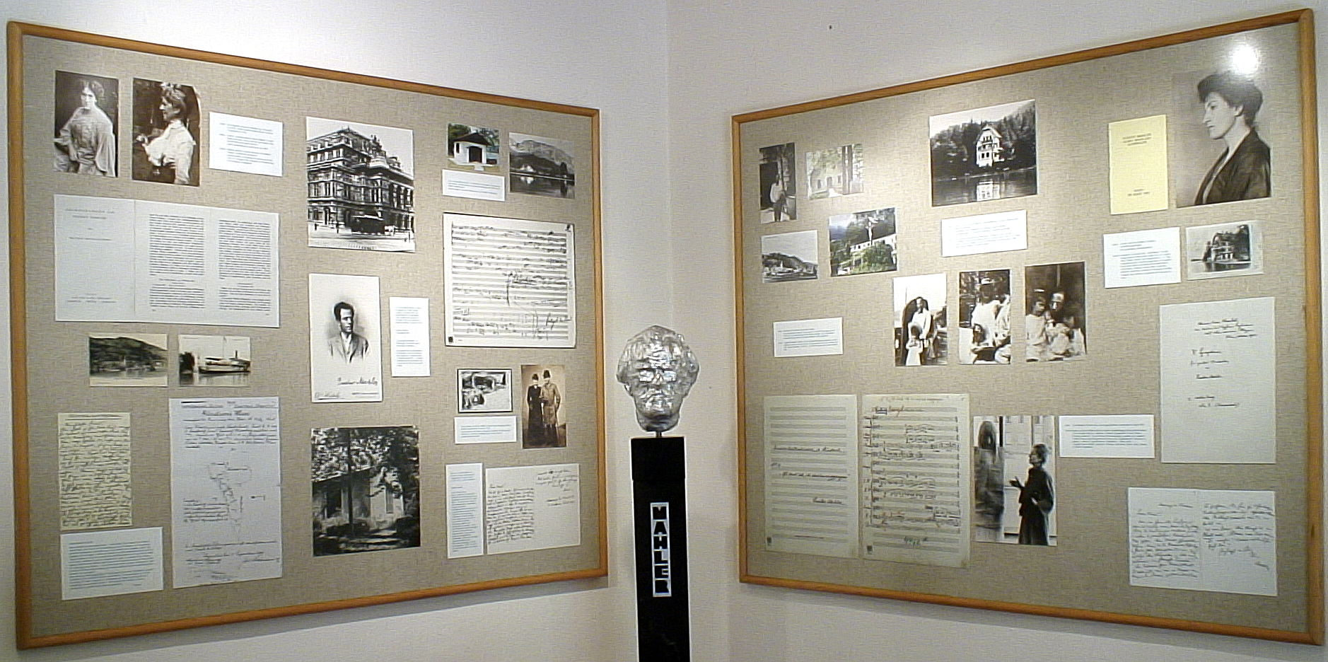 Exhibition at the Mahler composer´s house, Maiernigg, Carinthia, Austria